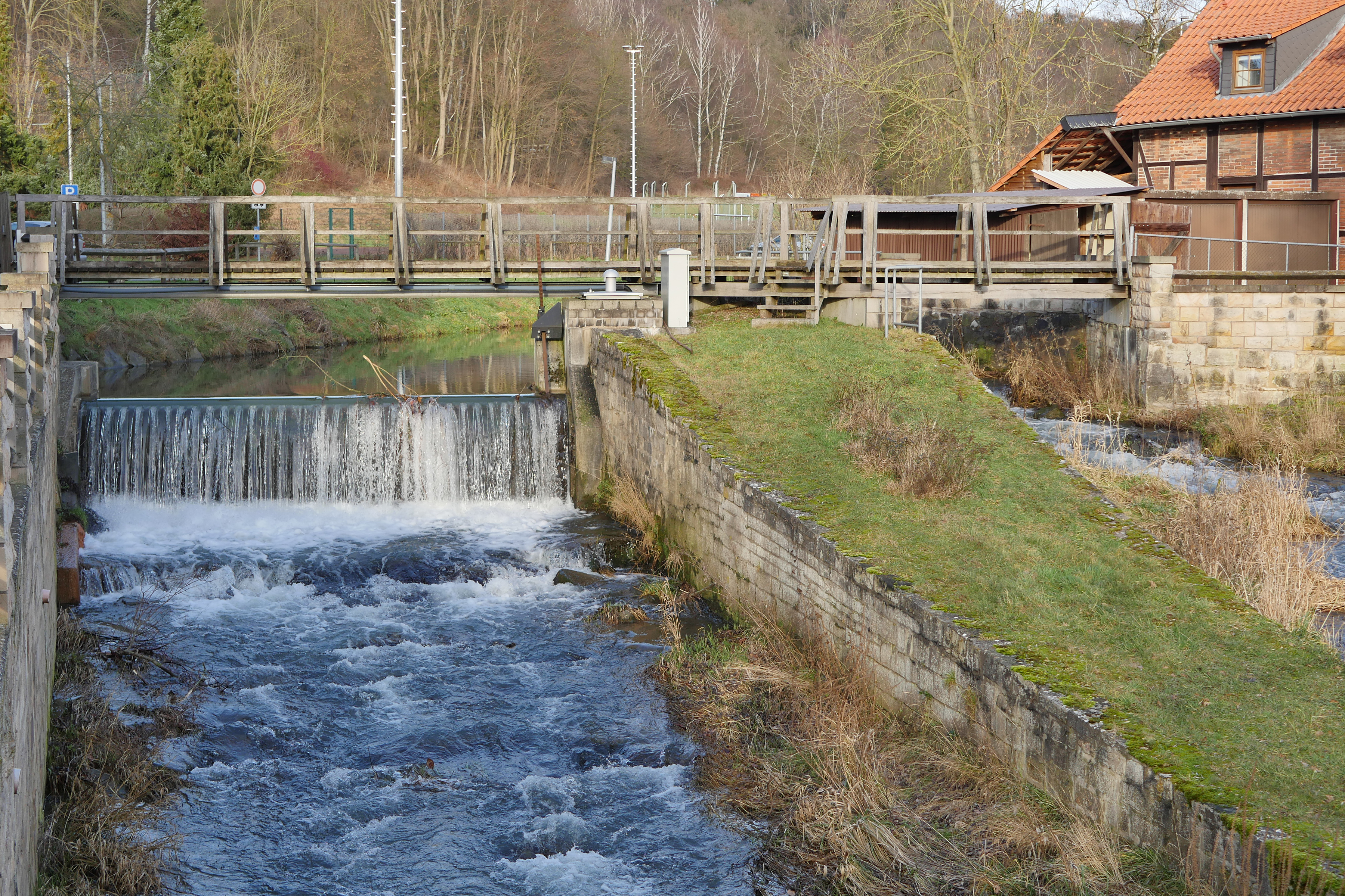 Barrage at the river Gande in the town Bad Gandersheim